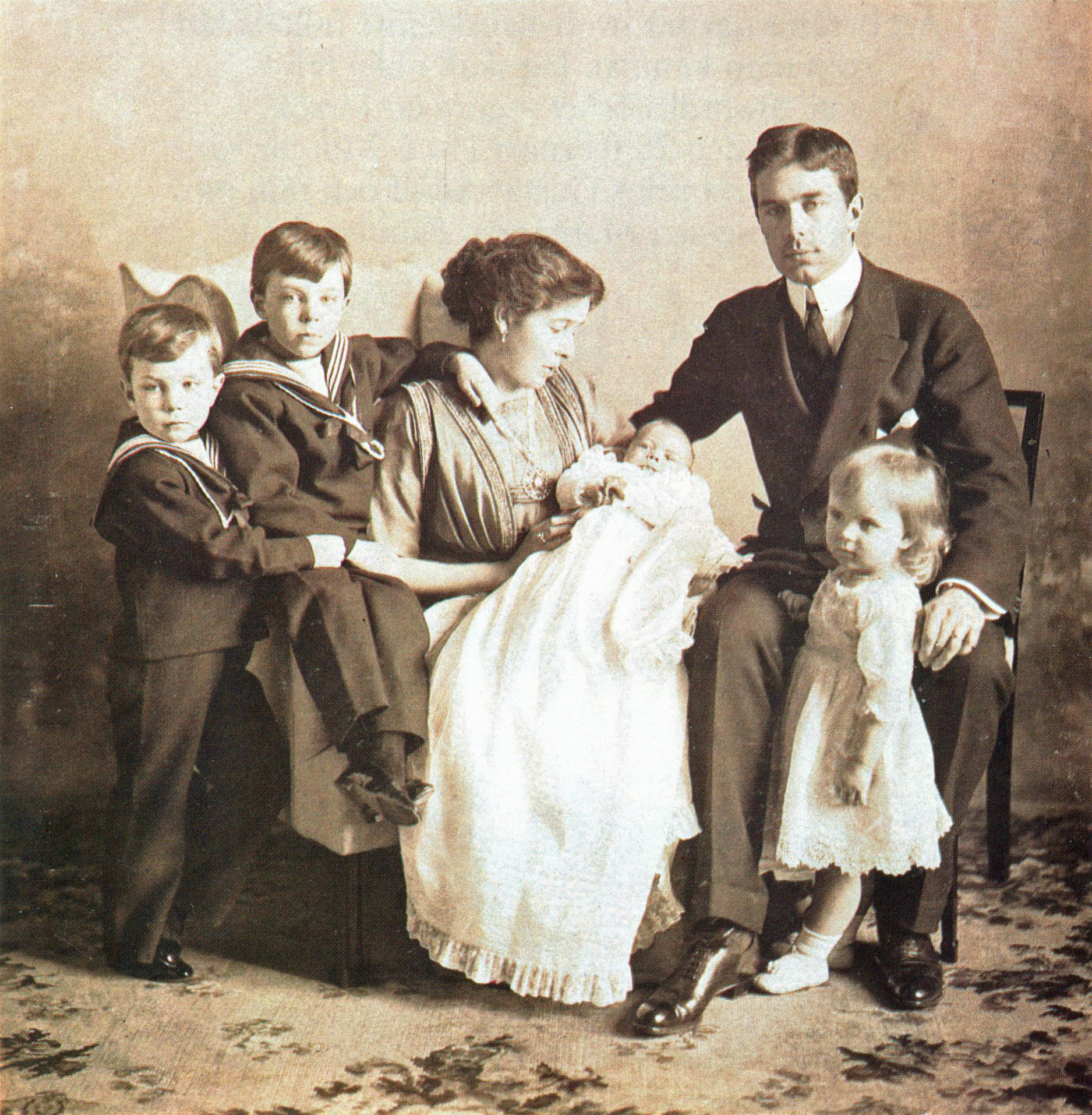 Crown Prince of Sweden and family